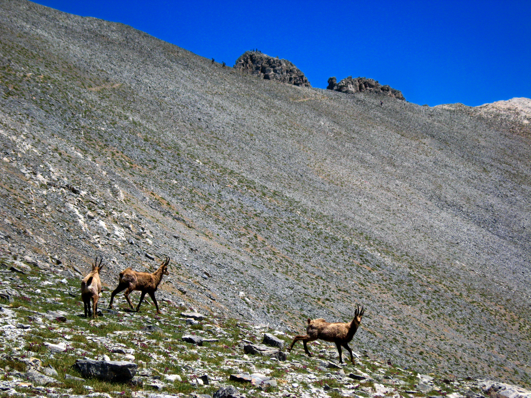 Balkan chamois (Rupicapra rupicapra balcanica) at the alpine zone of Olympus Mt.